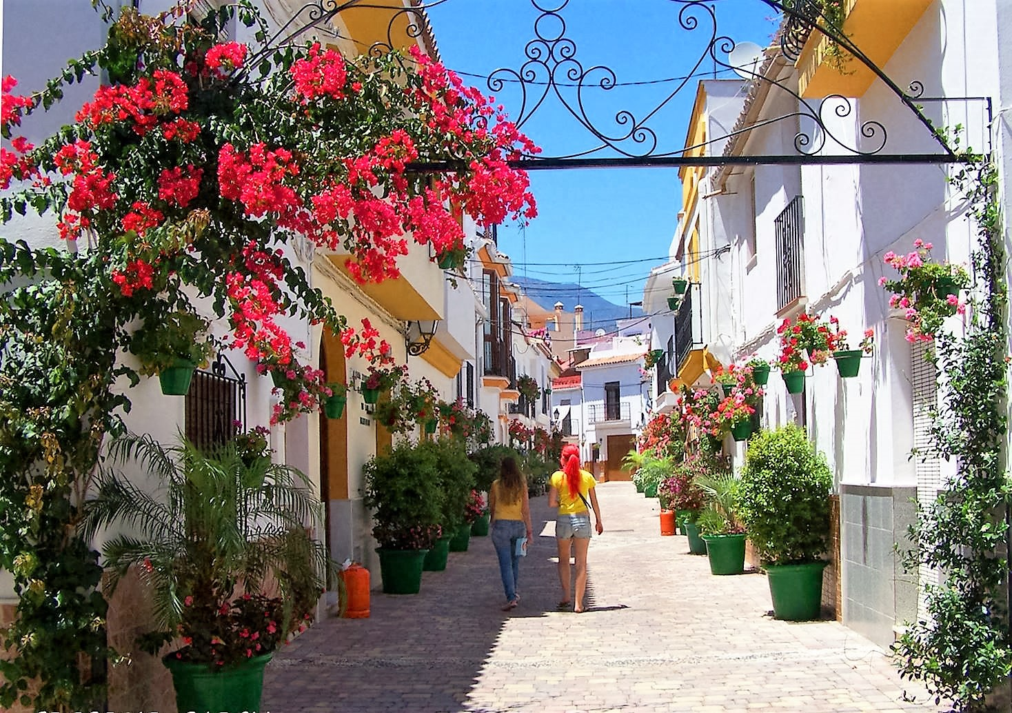 Flowers decorate the streets of Estepona